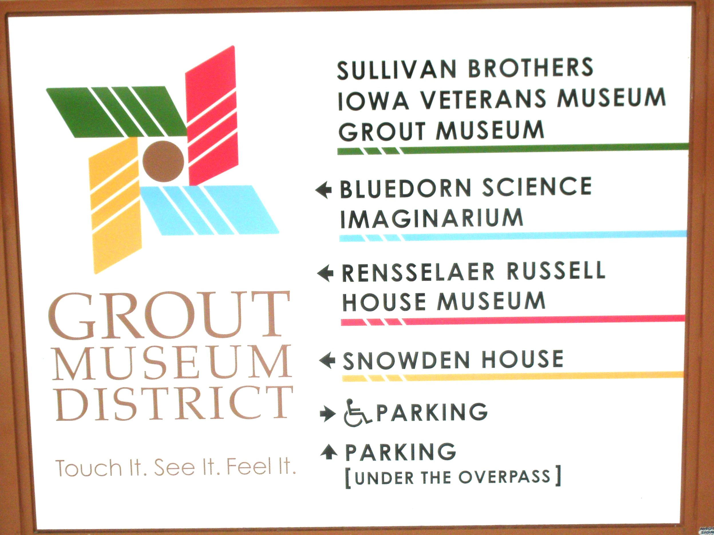 Grout Museum District sign located at 503 South Street in Waterloo, Black Hawk County, Iowa. The district is accredited by the American Association of Museums.